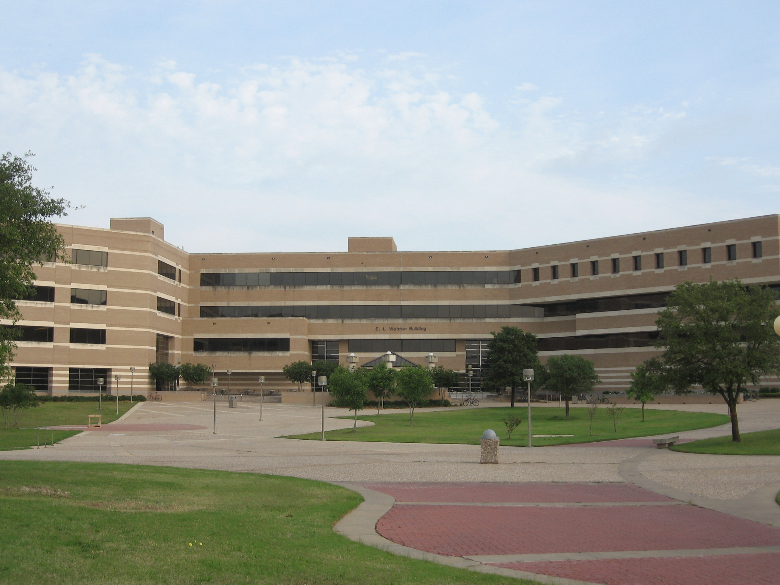 south end of the wehner building of the Mays Business School at Texas A&M